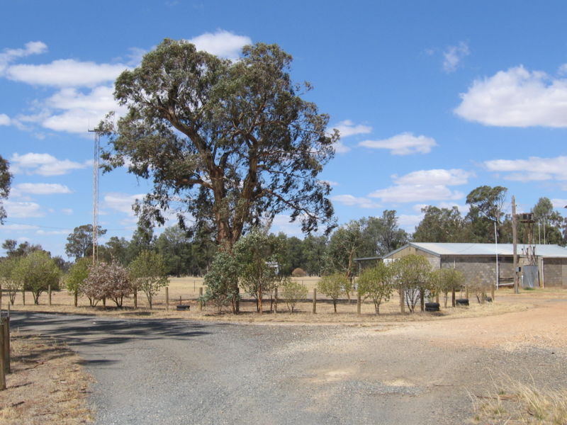 The Recreation Reserve at Buraja, New South Wales